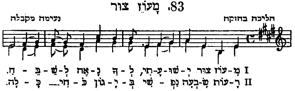 Right-to-left recording of Hanukka song Maoz Tzur by Abraham Tzevi Idelsohn